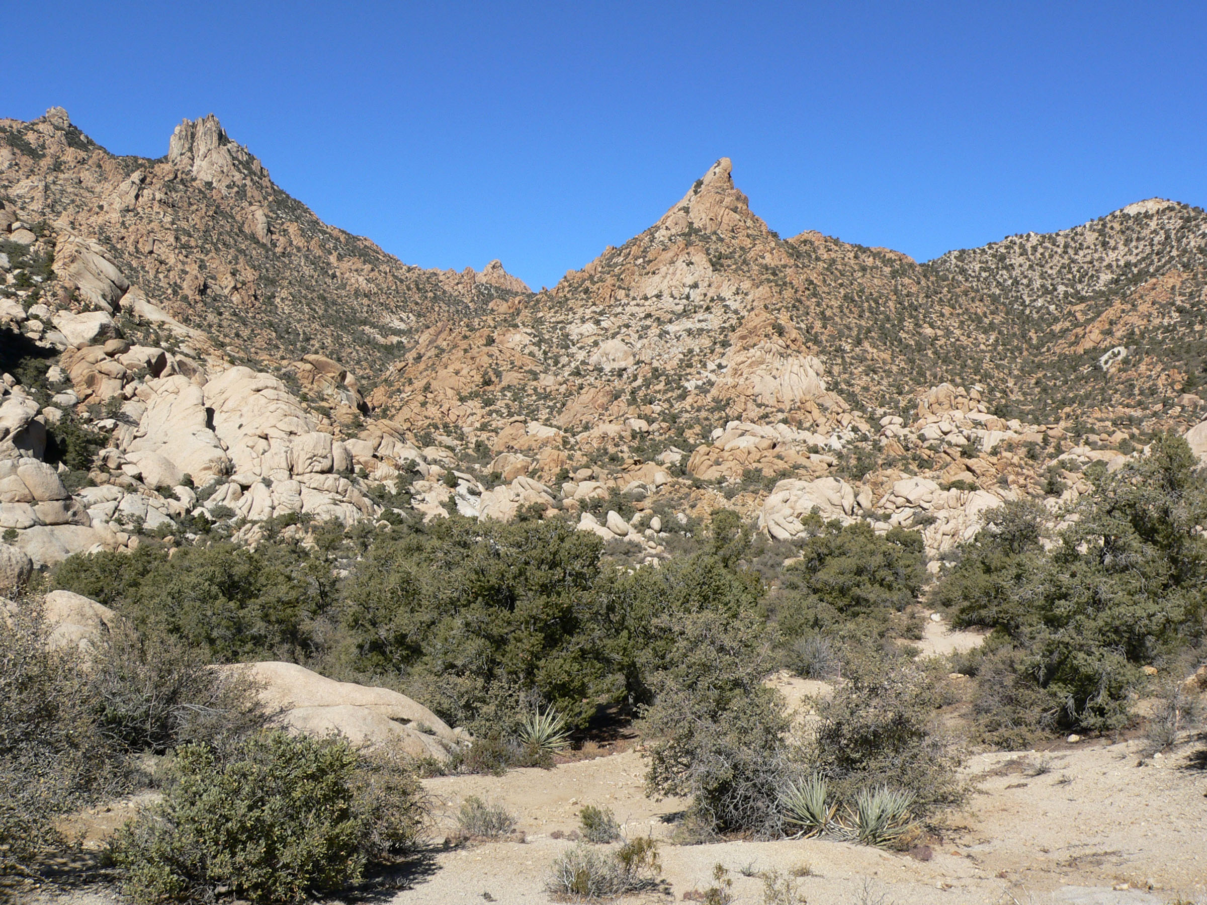 View of Caruthers Canyon, New York Mountains, southern California